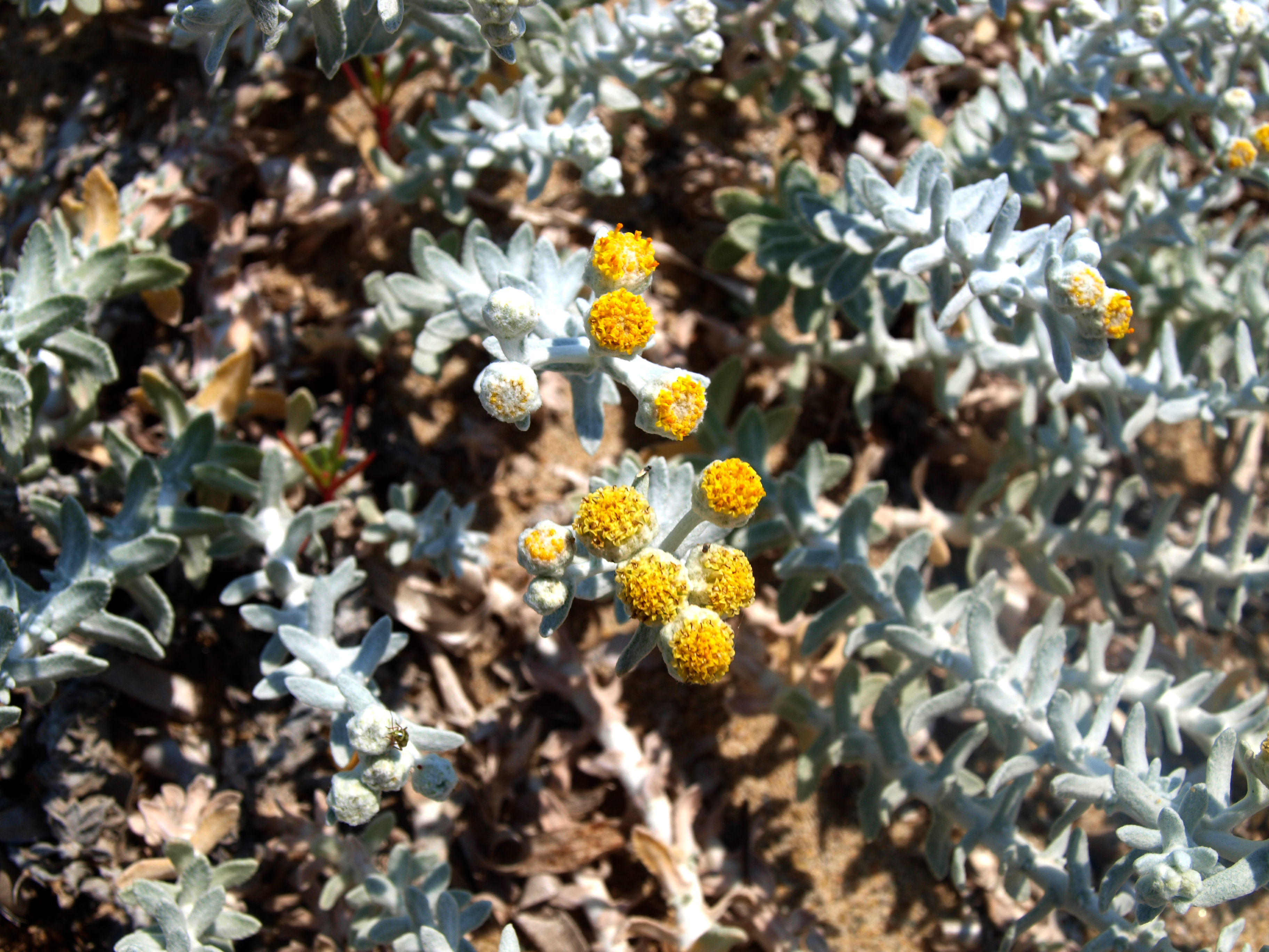 Achillea maritima This is a photography of Natura 2000 protected area with ID GR1220005